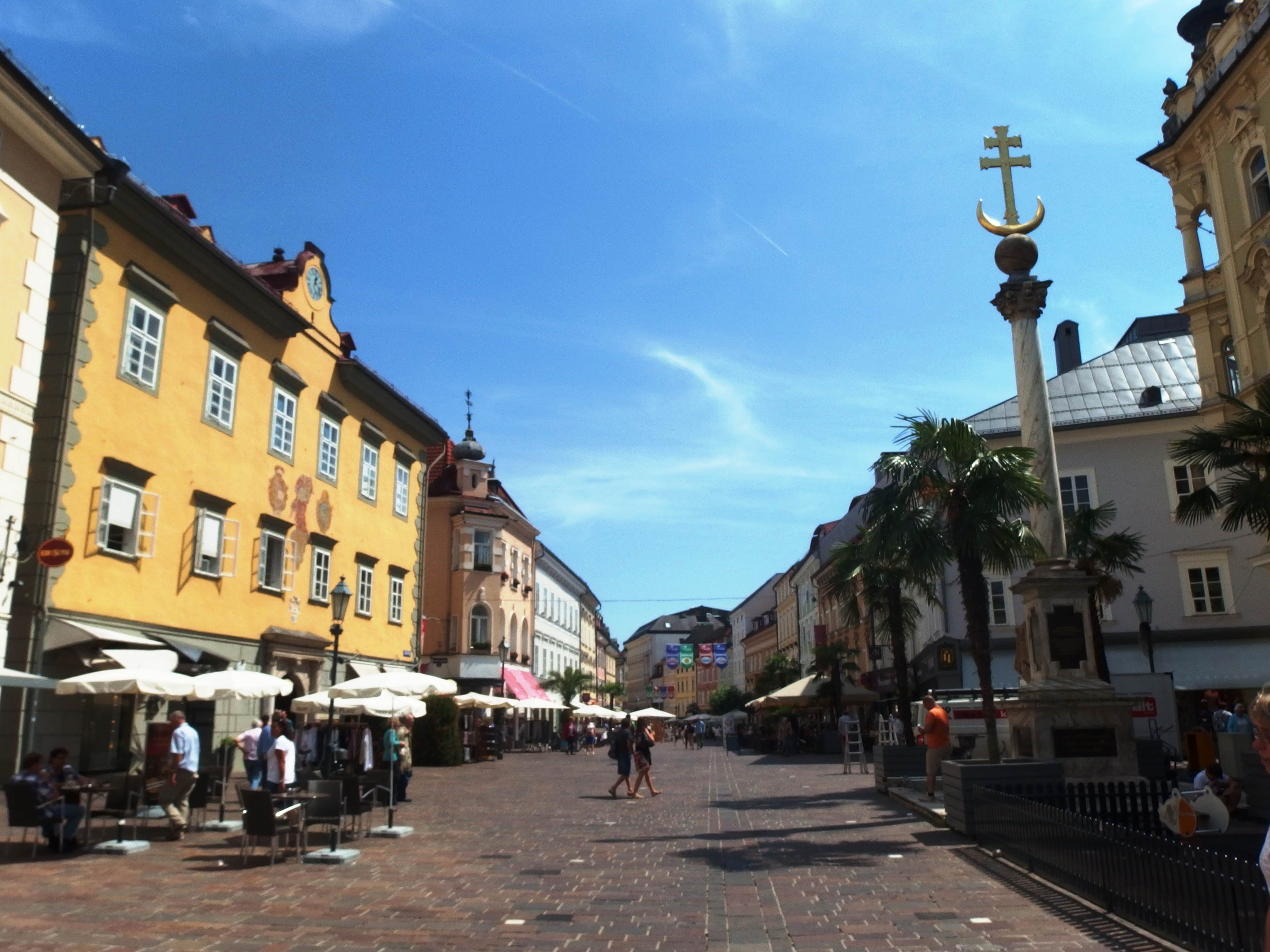 Klagenfurt, Carinthia, Austria. Alter Platz square.